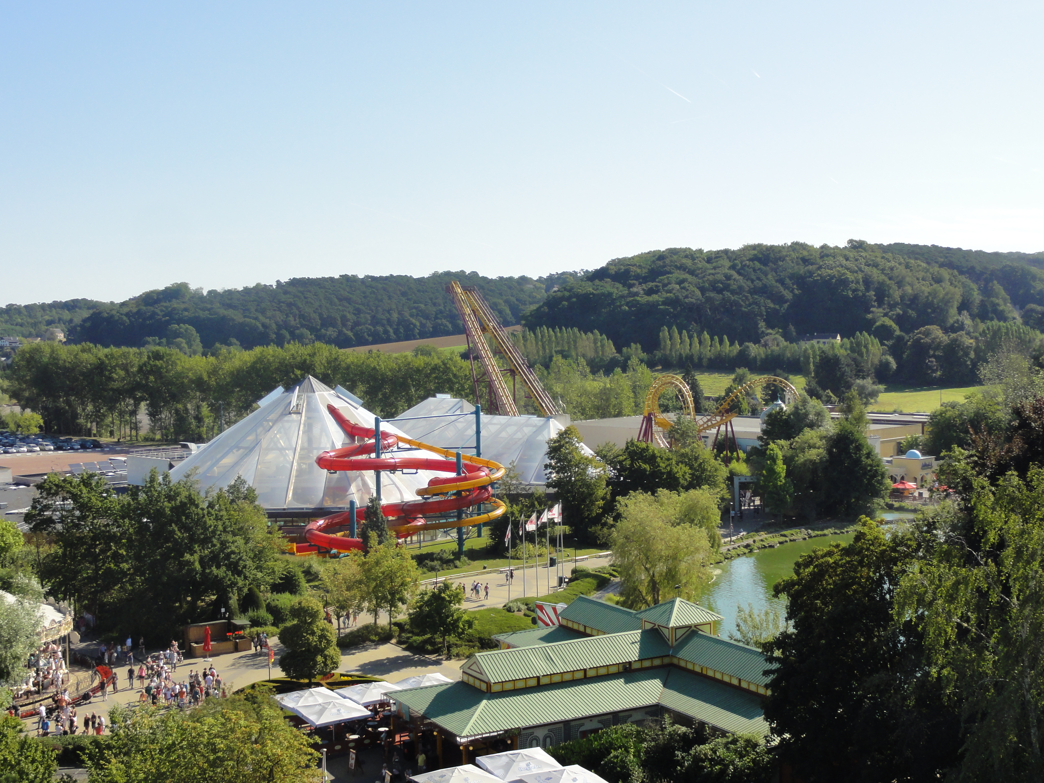 Aqualibi, Walibi Belgium, Belgium.